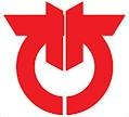 Okagawa Saitama chapter